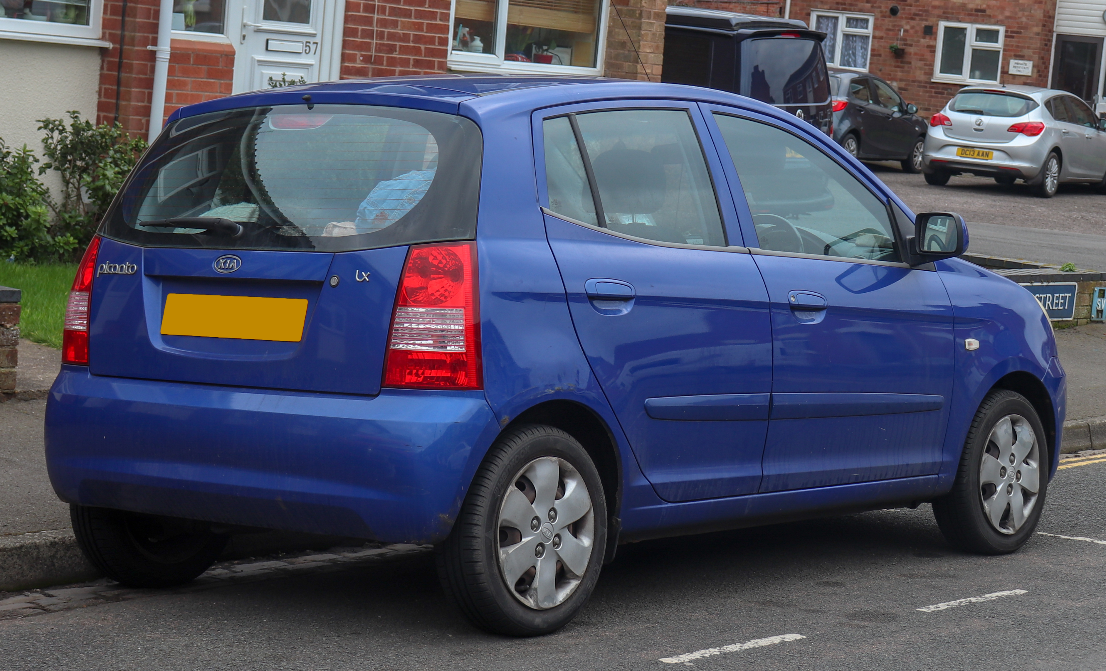 2004 Kia Picanto LX 1.1 Rear Taken in Warwick